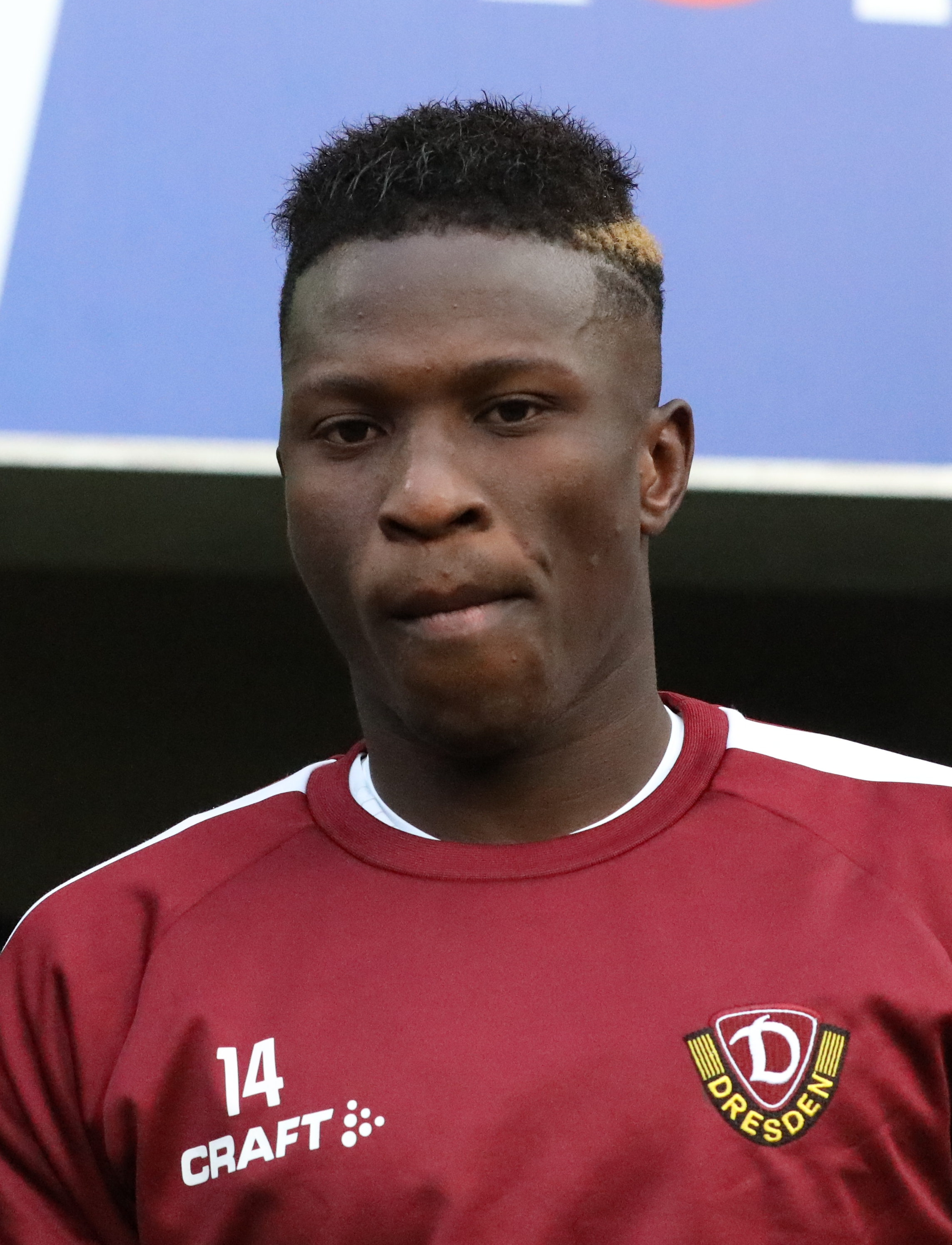 Test game, 17th July 2019: SG Dynamo Dresden vs. Paris Saint-Germain 1:6 (0:3)